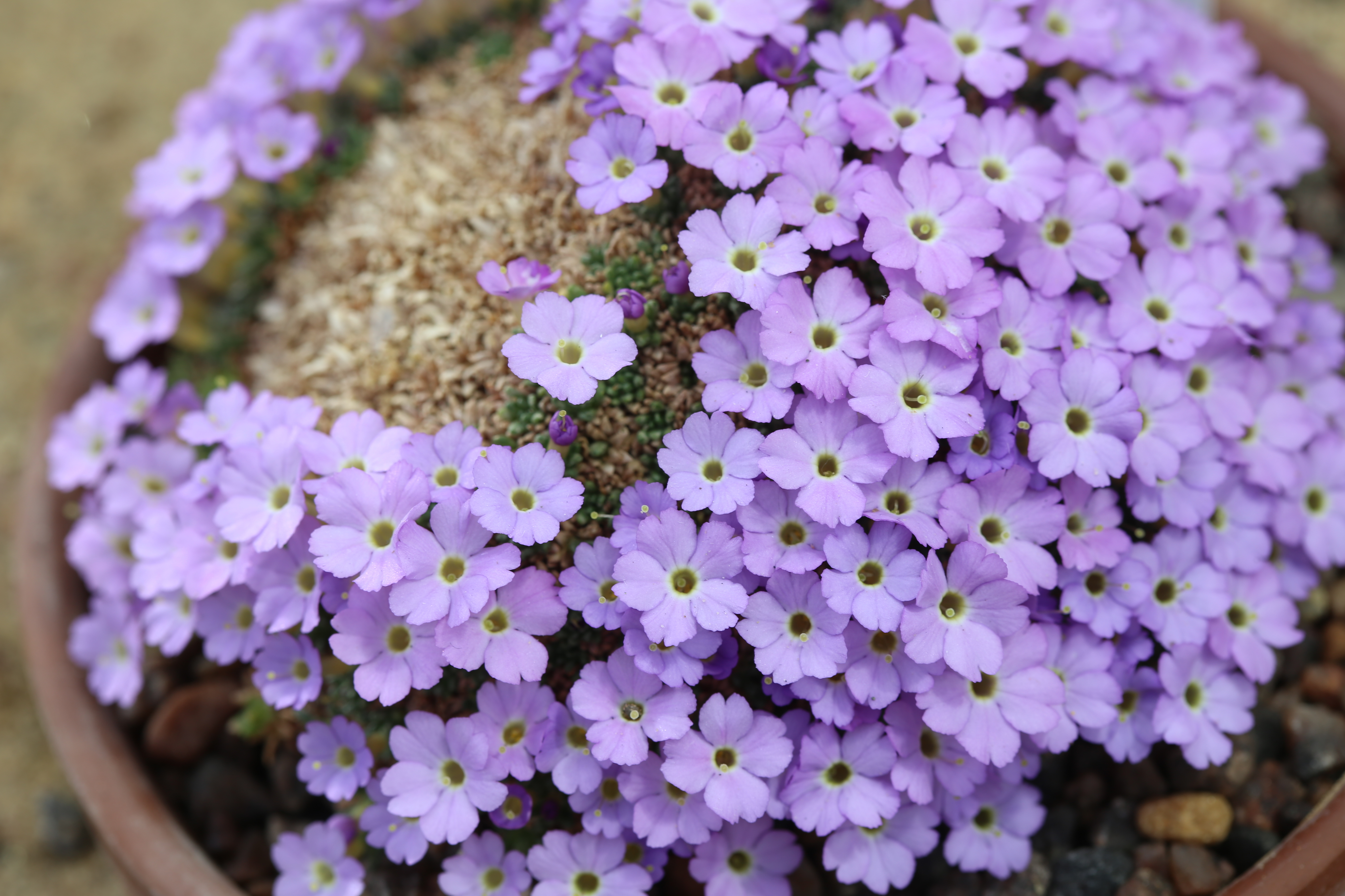 Dionysia zschummelii at Gothenburg Botanical Garden in 2015. Plant id: 2002-2249; T4Z 166-2